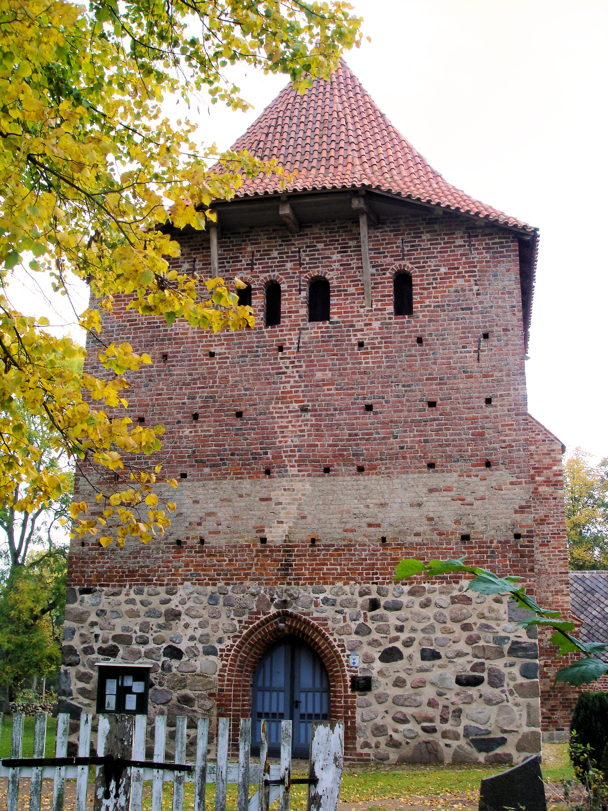 Church in Groß Tessin, Mecklenburg, Germany